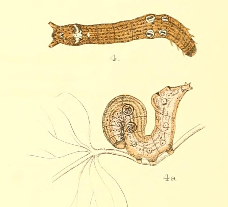 Argadesa materna larvae Moore, Frederic 1880 On the genera and species of the Lepidopterous Subfamily Ophiderinae inhabiting the Indian Region. Zoological Society of London